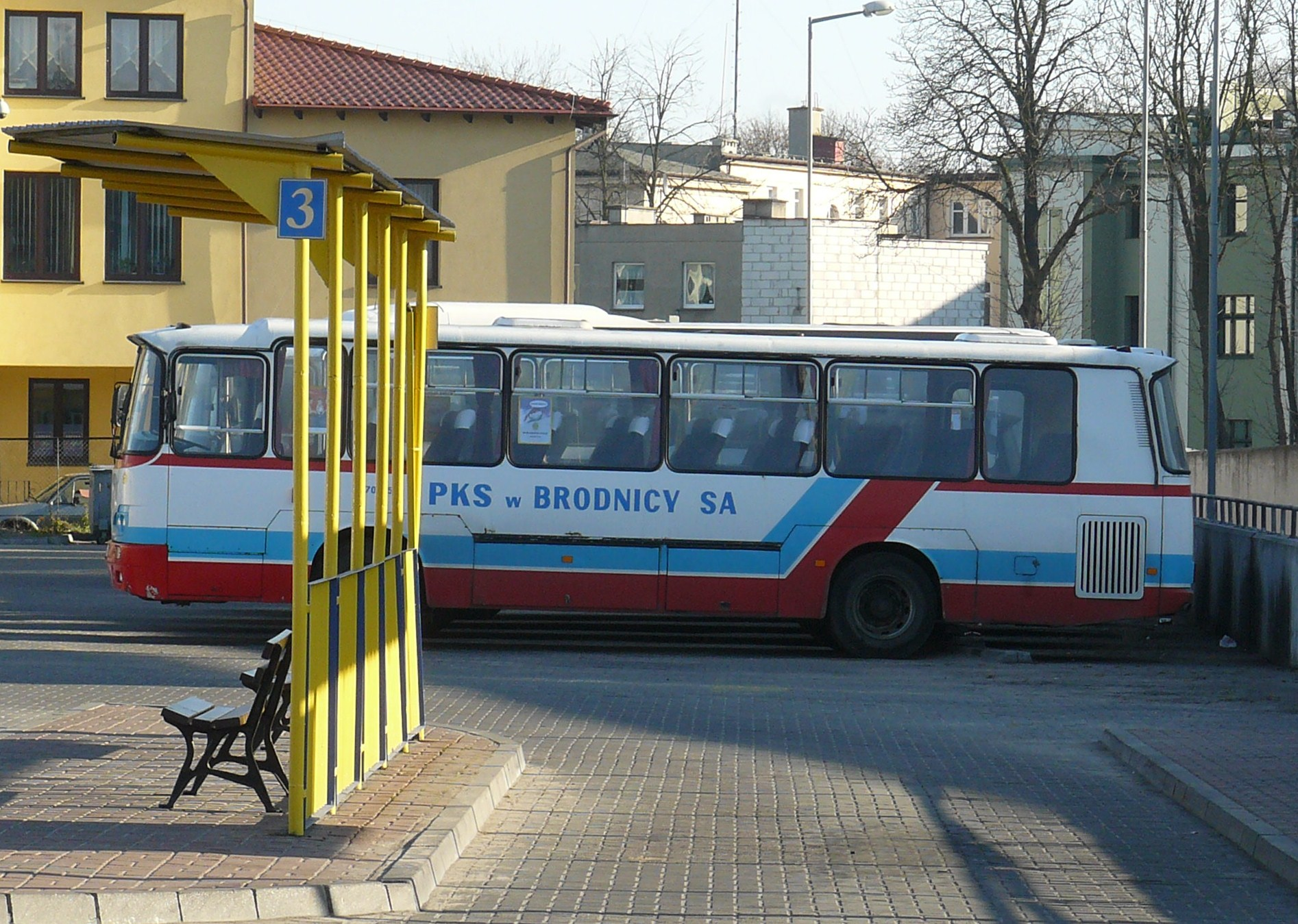 Bus station in Brodnica, Kuyavian-Pomeranian Voivodeship, Poland. Autosan H9 bus, PKS Brodnica operator.